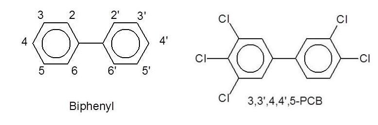 Chemical structures of biphenyl and 3,3’,4,4’,5-pentachlorobiphenyl (PCB 126)